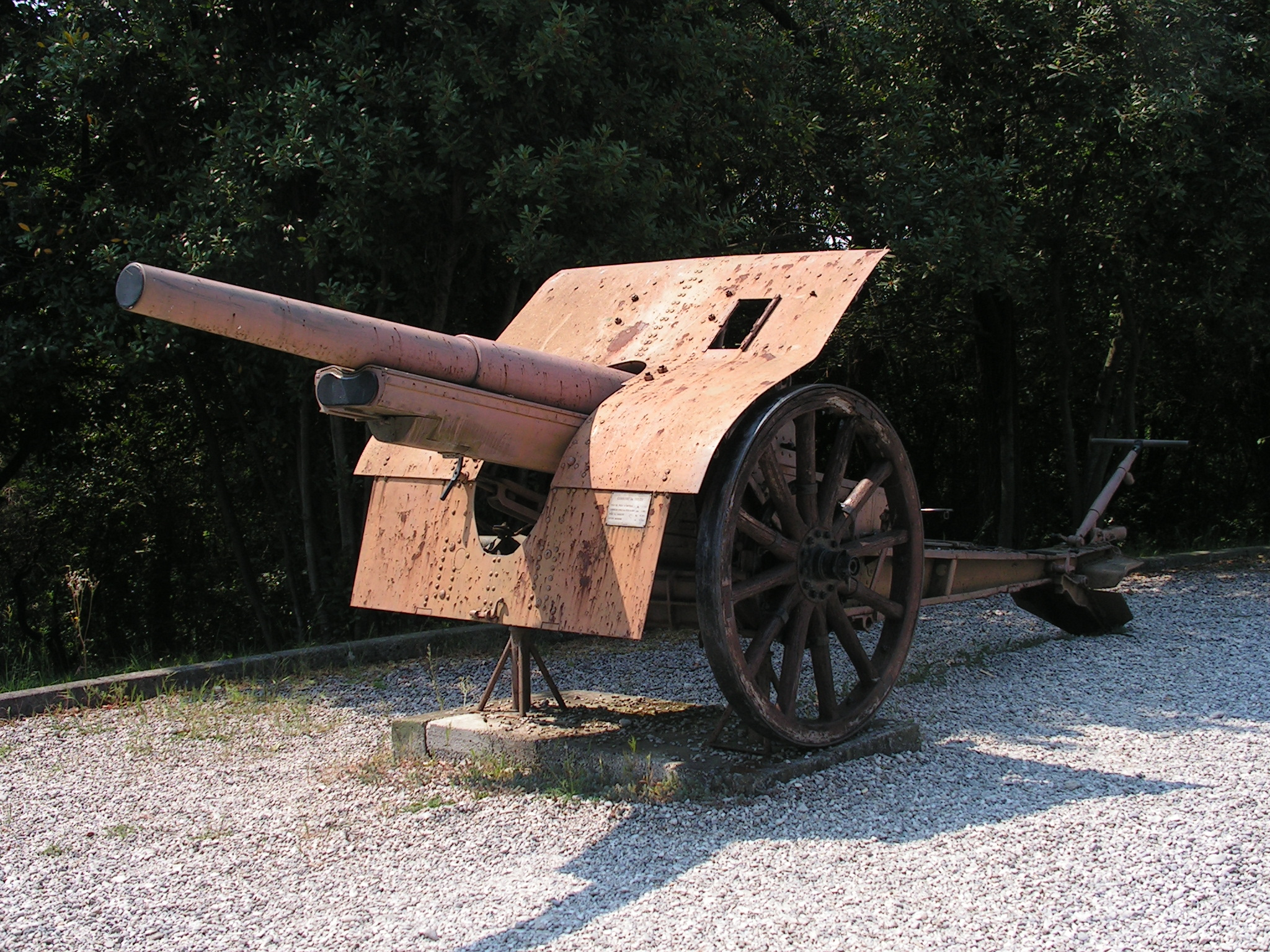 Itlaian cannon 105/28